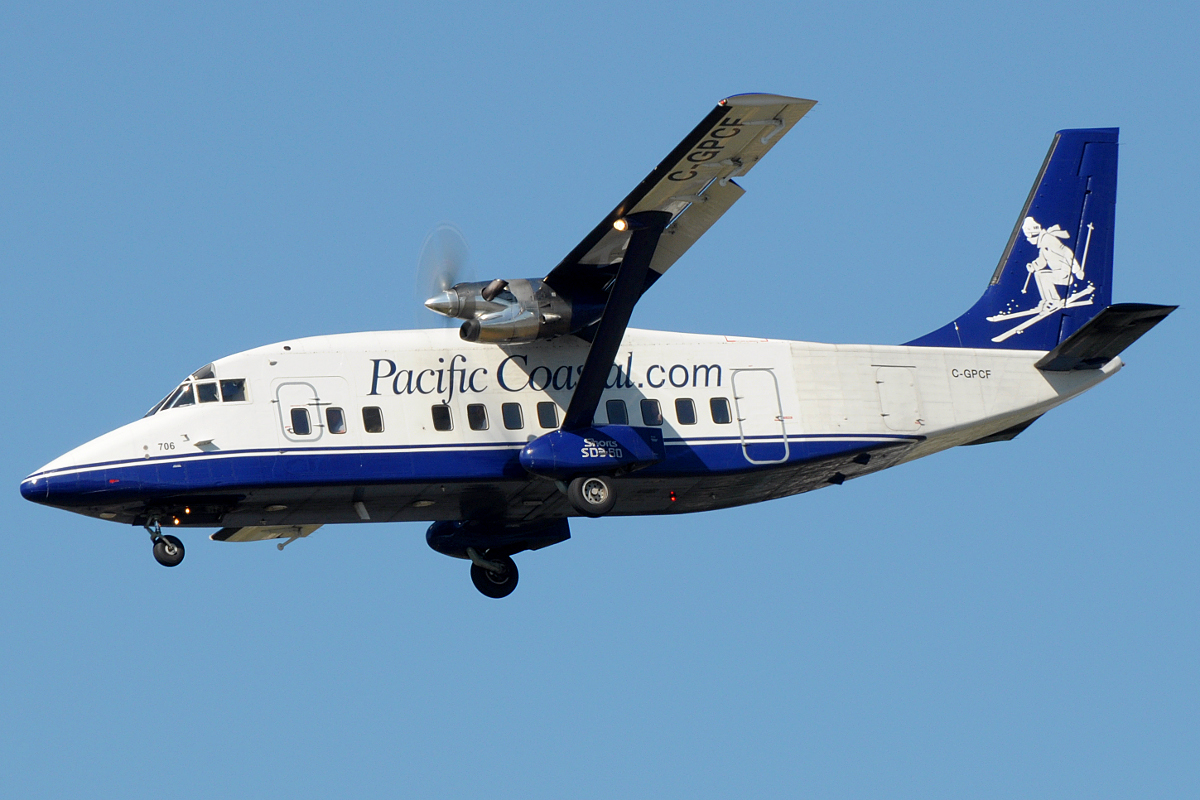 Pacific Coastal Airlines Short 360 landing in Vancouver